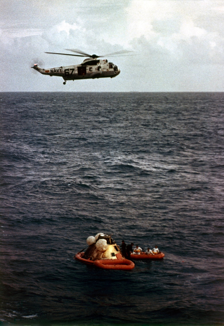 Apollo 8 Command Modul after landing in Pacific Ocean.